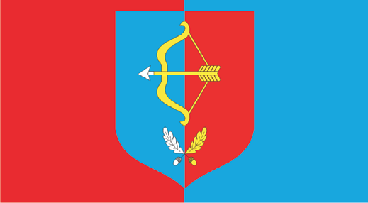 Flag of Pinsk District